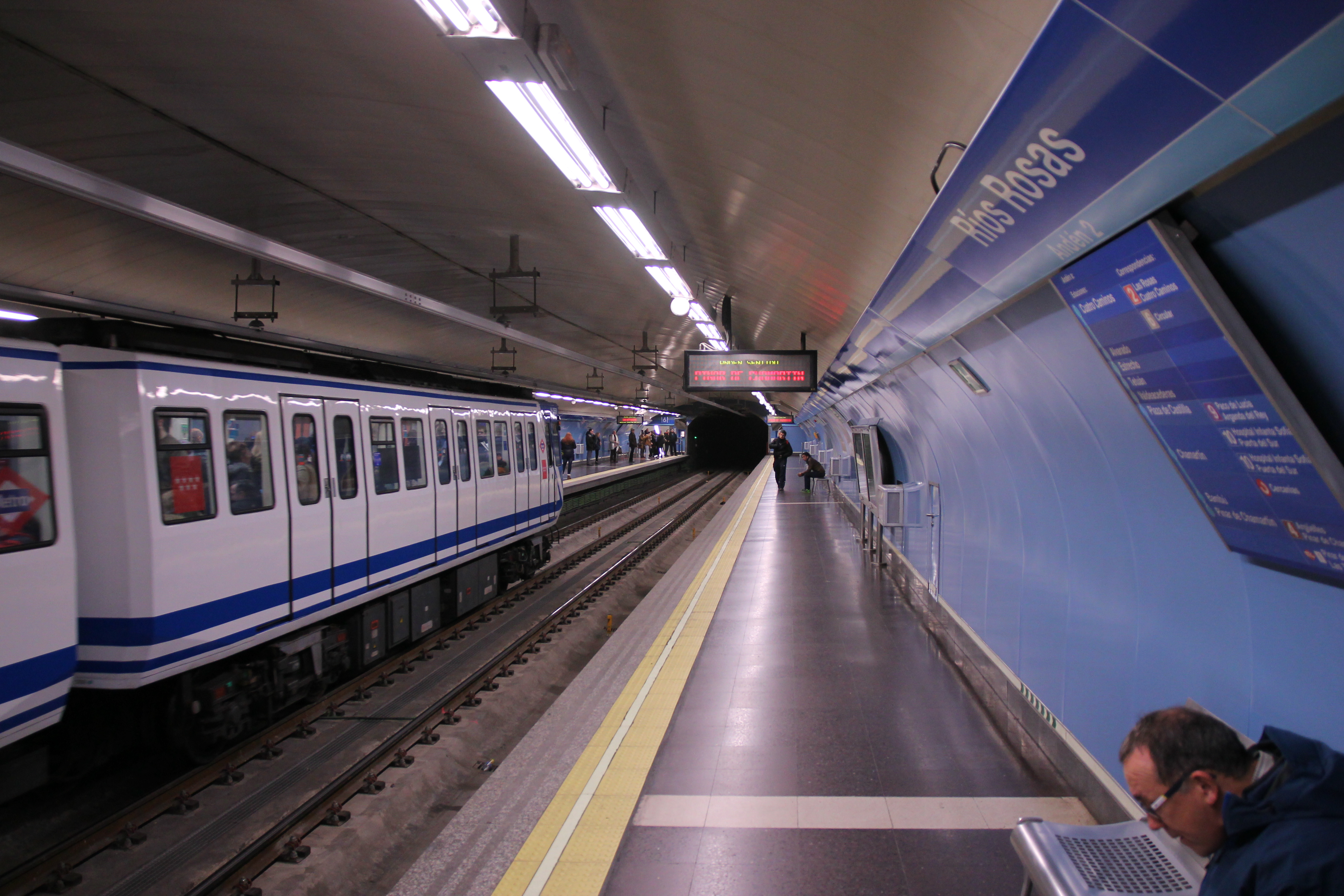 Estación de Ríos Rosas